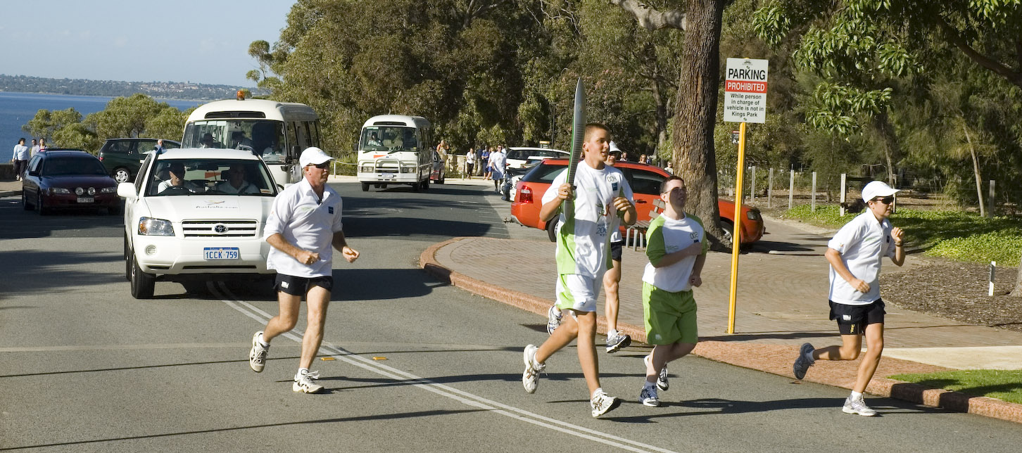 Queen's Baton Relay - Kings Park, Western Australia.